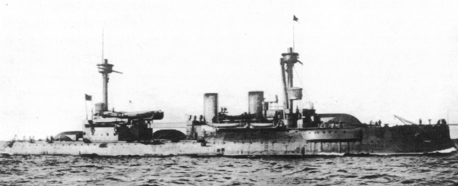 The German battleship SMS Wörth in 1893.